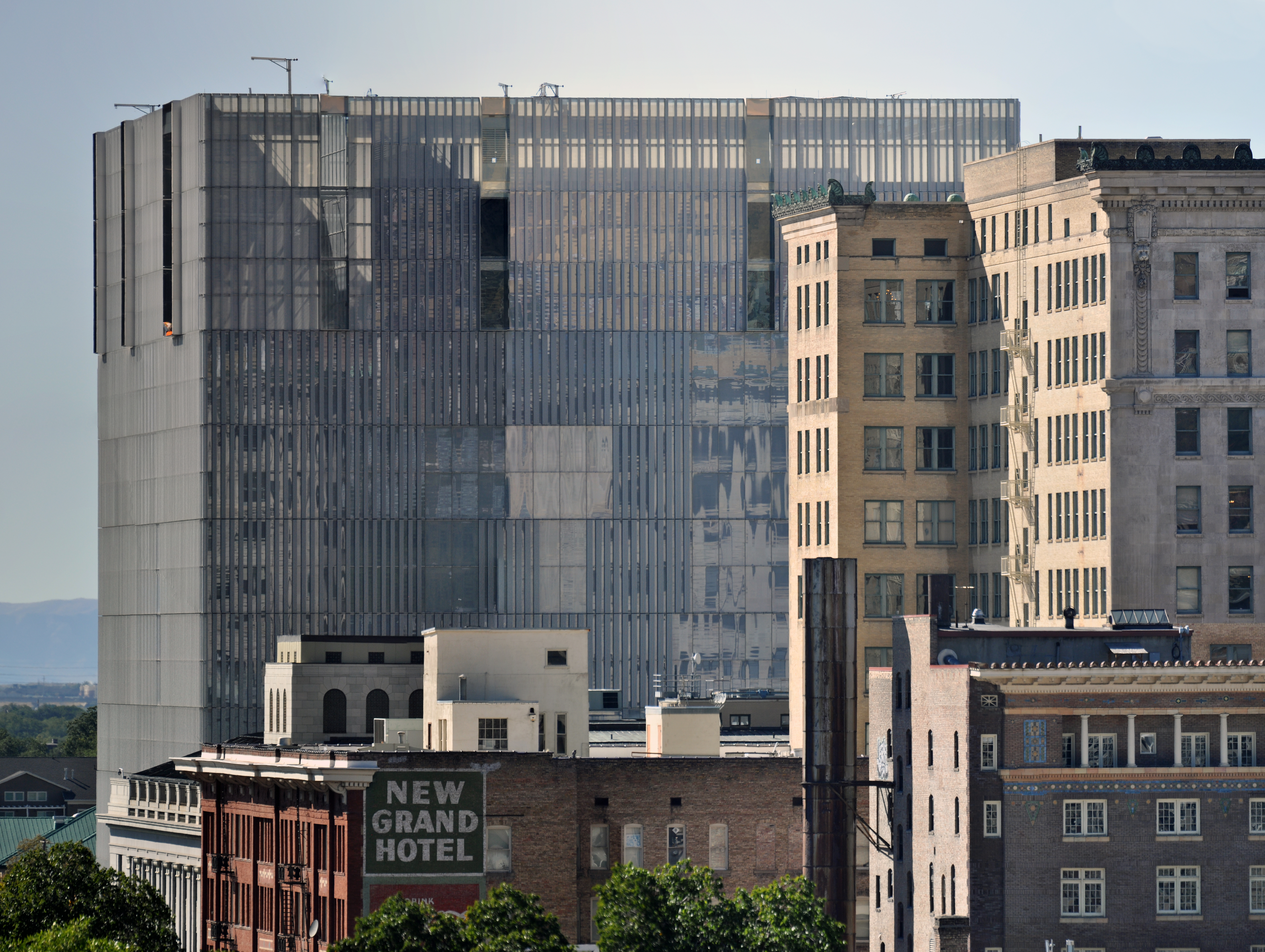 Composite of five separate photographs taken at maximum zoom using a Nikon D90 and Nikkor 70-300mm lens. Camera positioned at Northwest corner on top of the Salt Lake City Library Downtown.